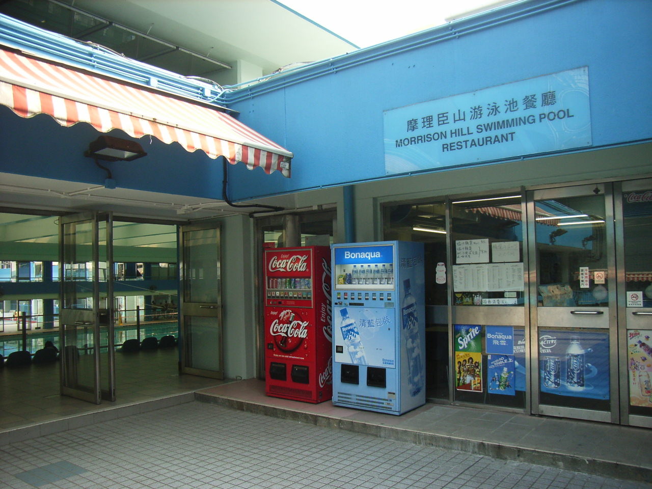 Around the Oi Kwan Road, Wan Chai, Hong Kong Author:Wenzi MHTI